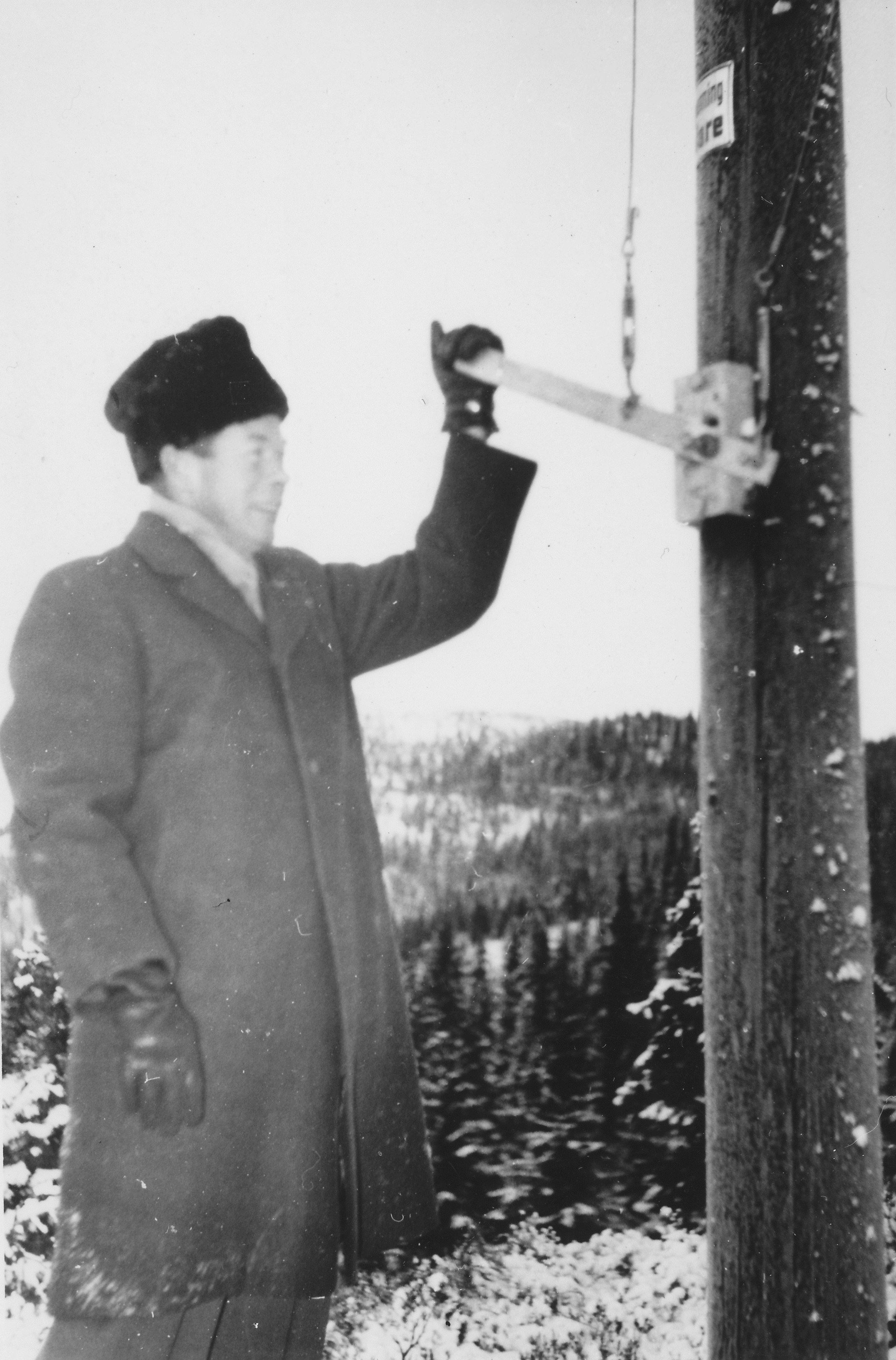 1960-12-09, Iver Skreden